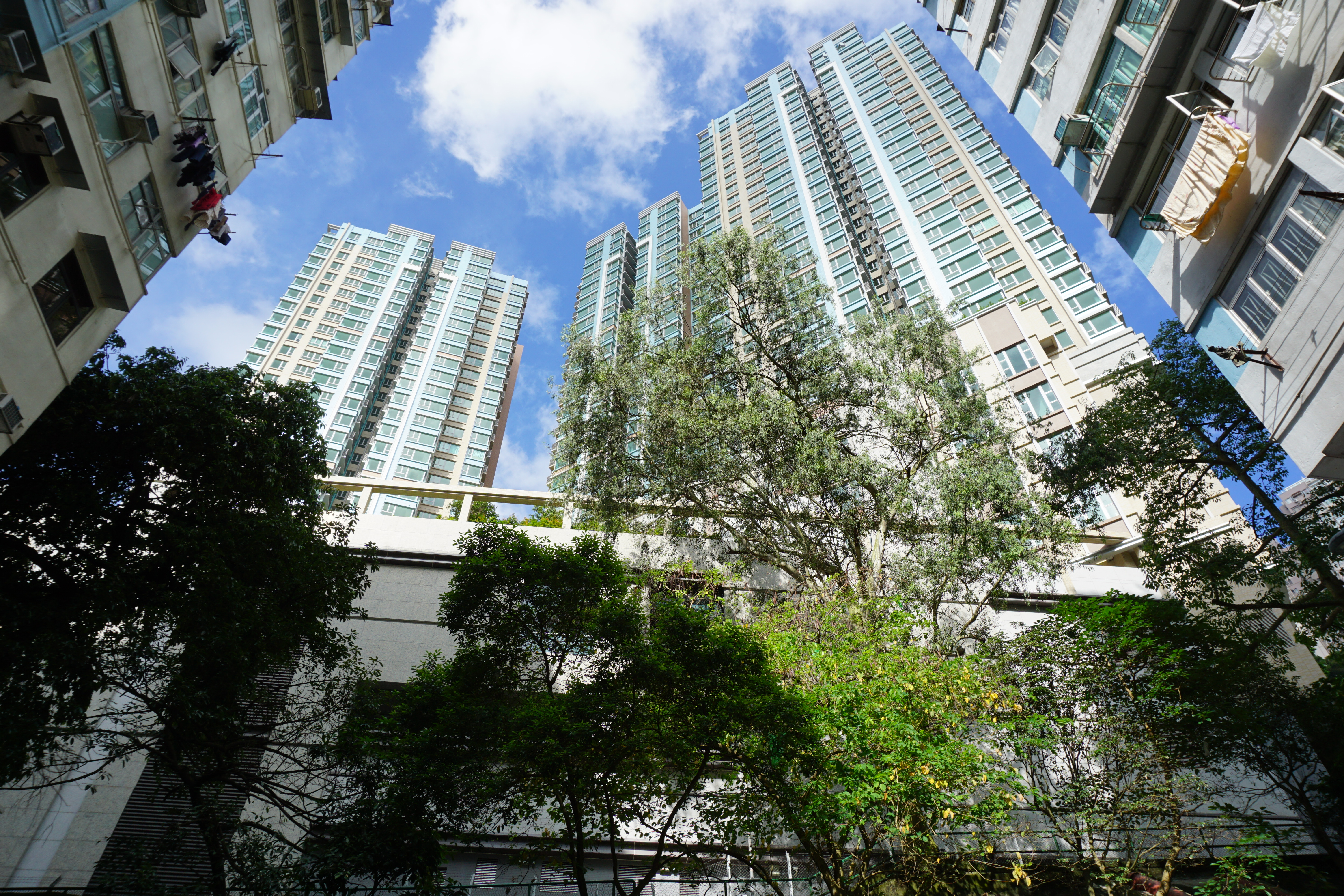 The Tanner Hill in North Point, Hong Kong.